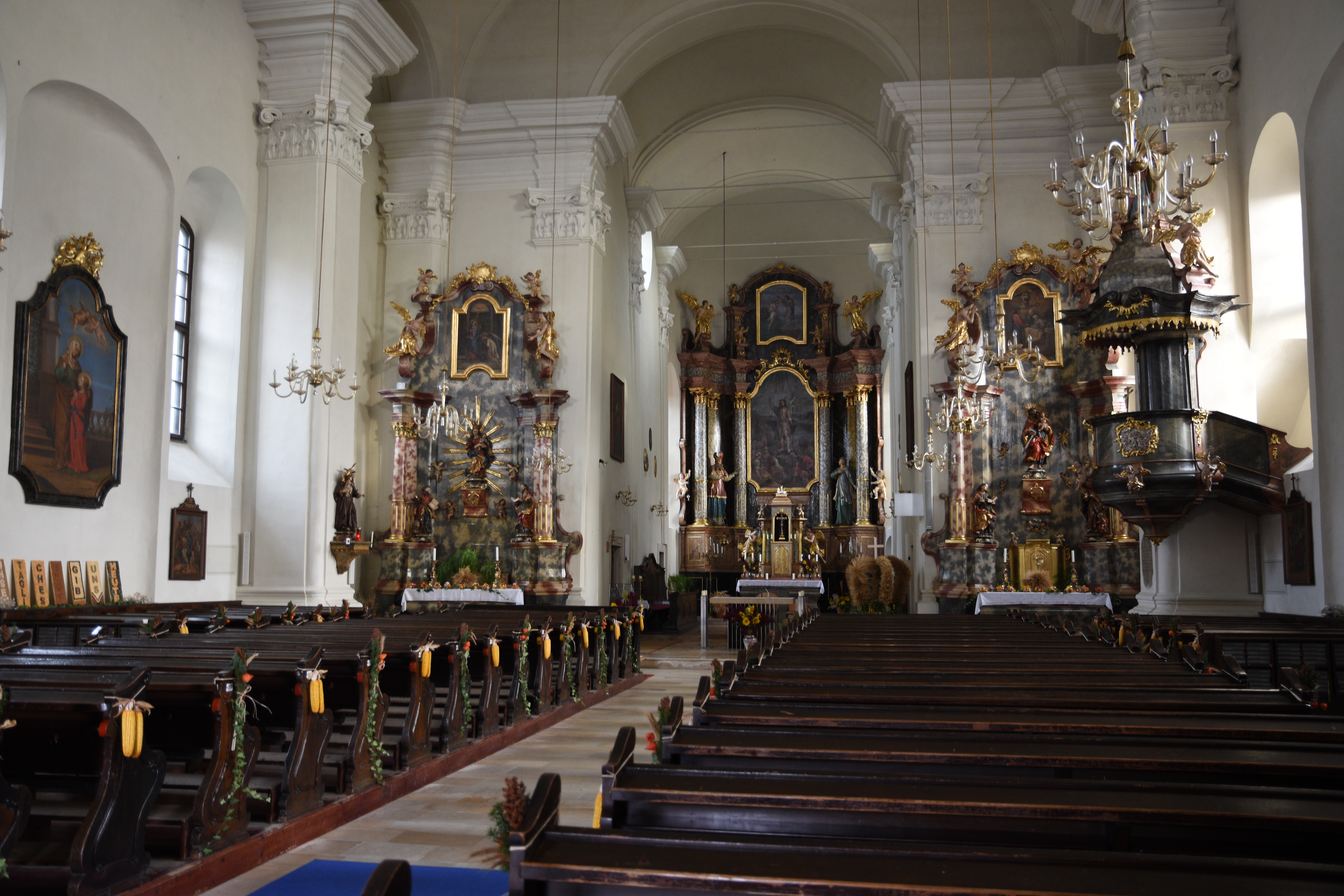 Church Fürstenfeld